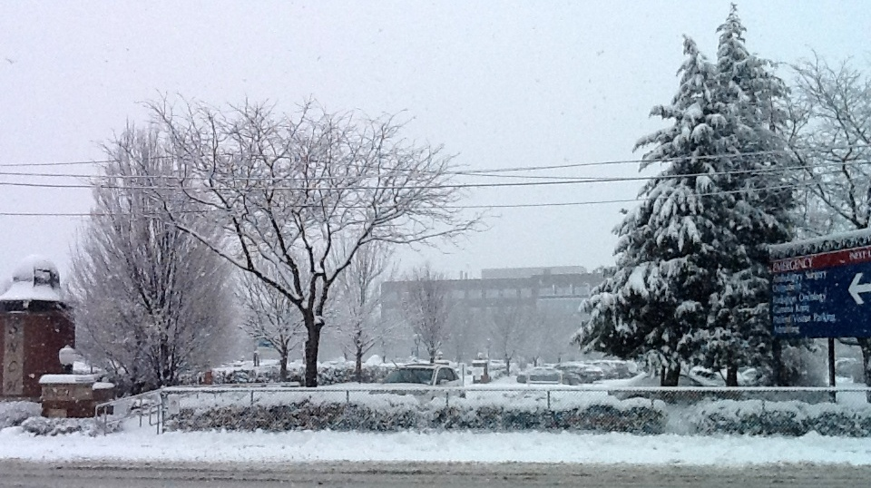 Winter view of South Nassau Communities Hospital